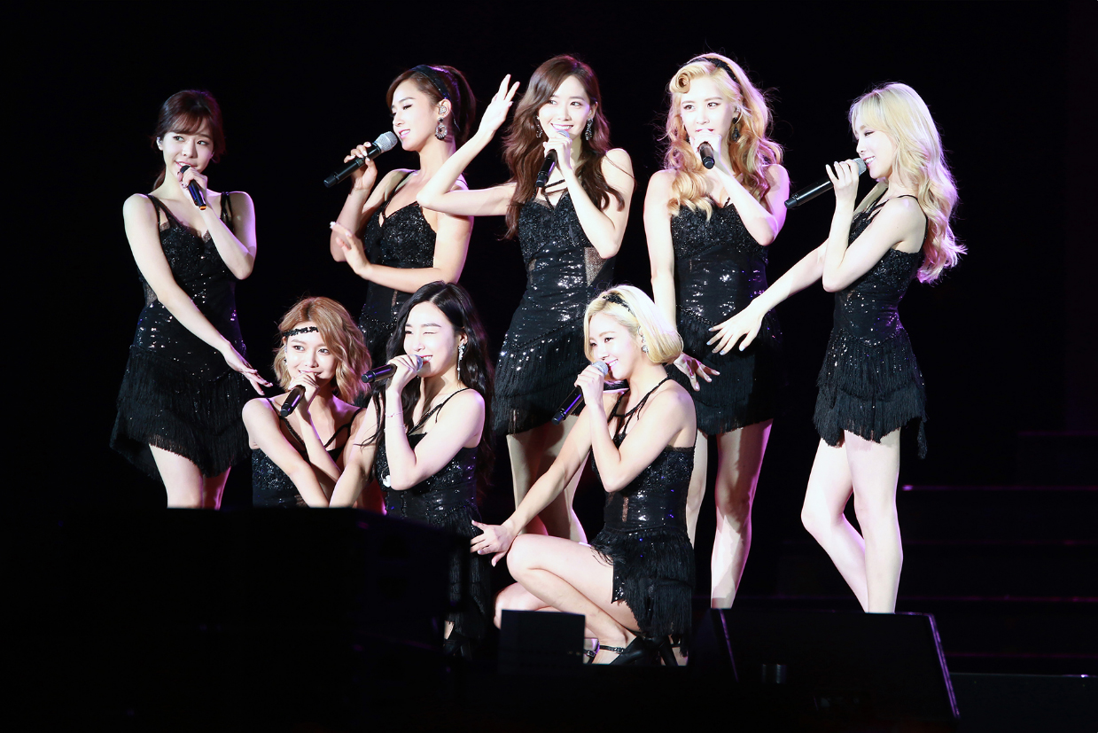 Girls' Generation performing at MBC Radio DJ Concert on September 6, 2015